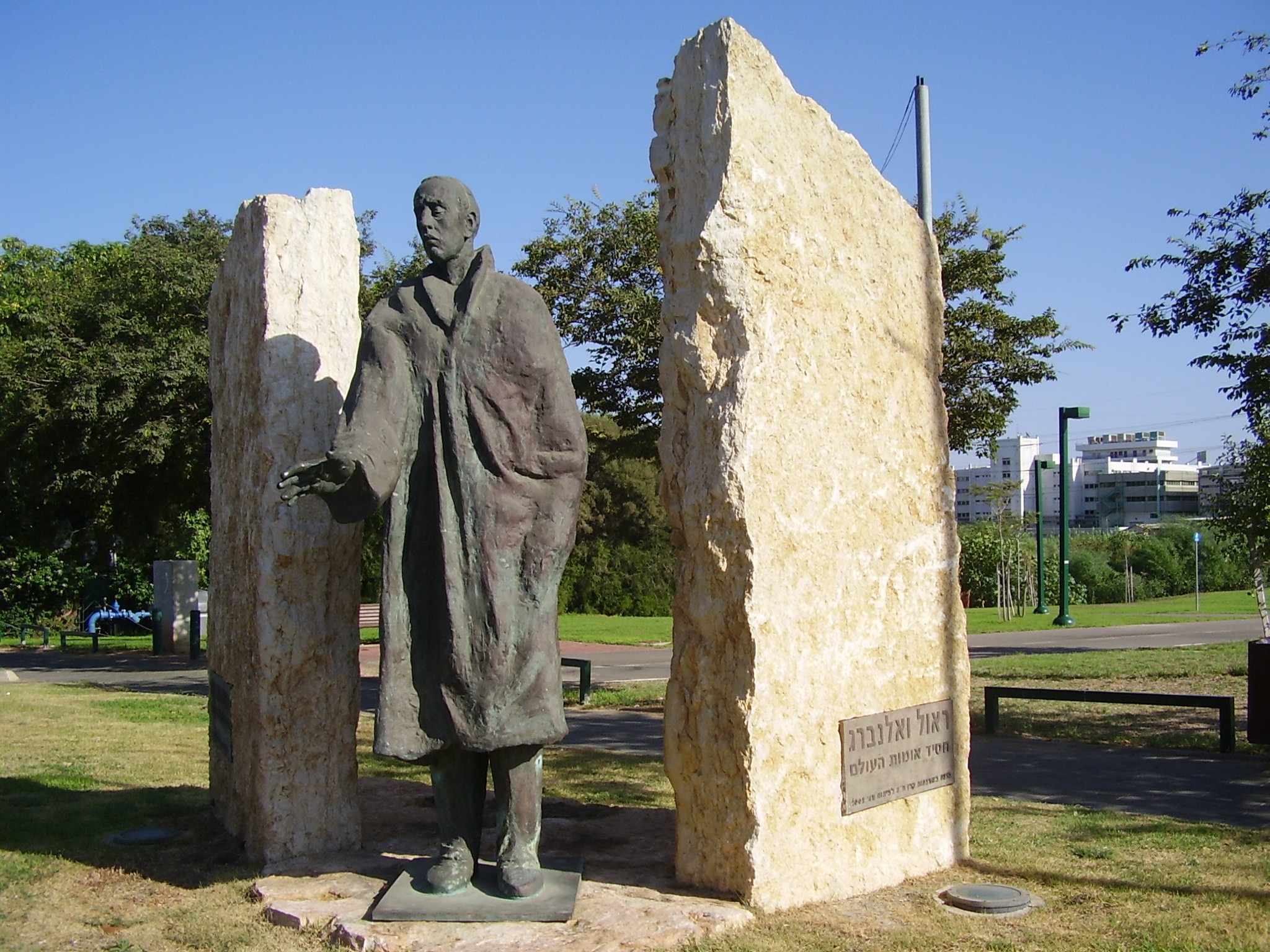 raul wallenberg memorial in tel aviv